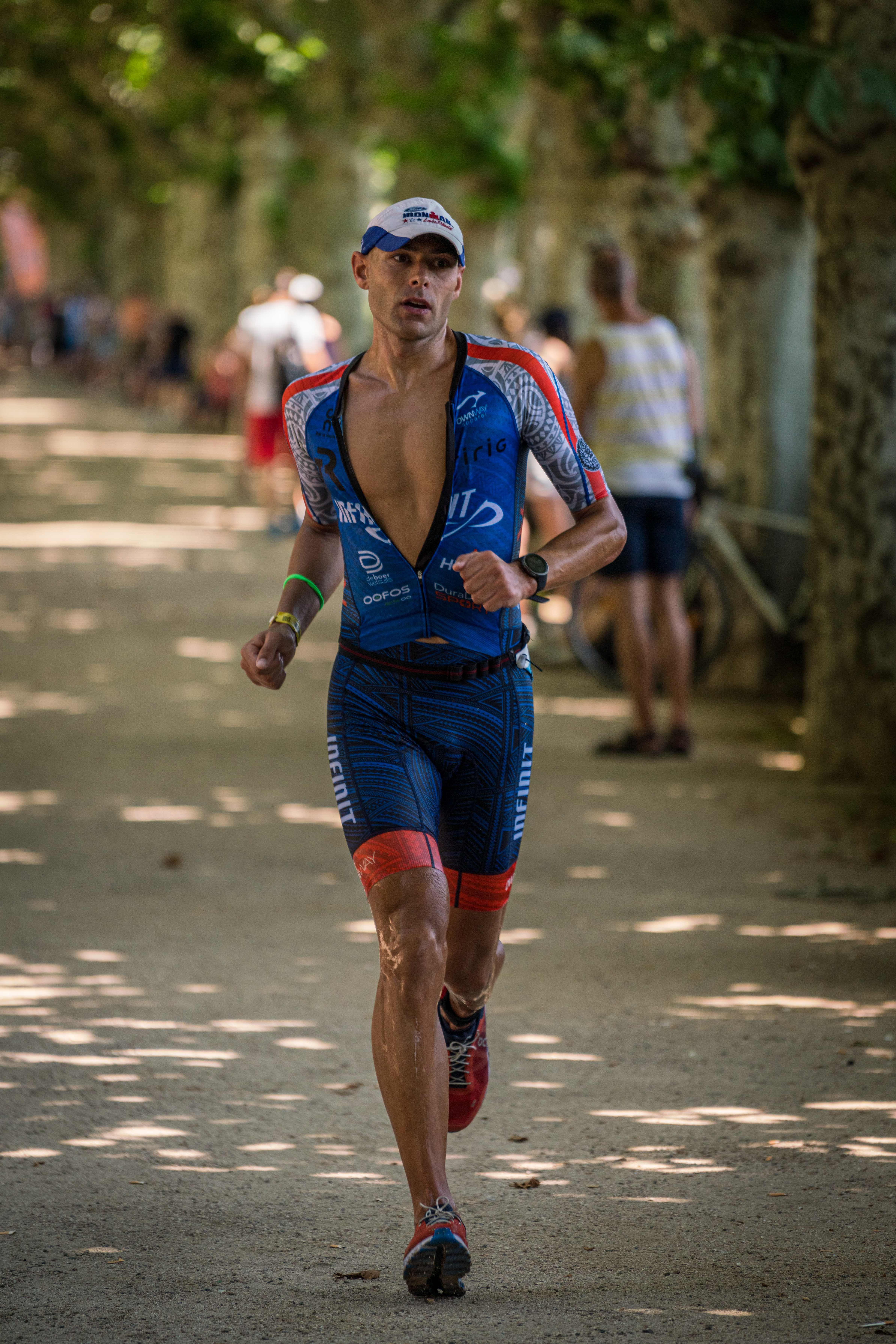 Sixth male Matt Russell at the 2019 Ironman European Championship in Frankfurt am Main (Germany).